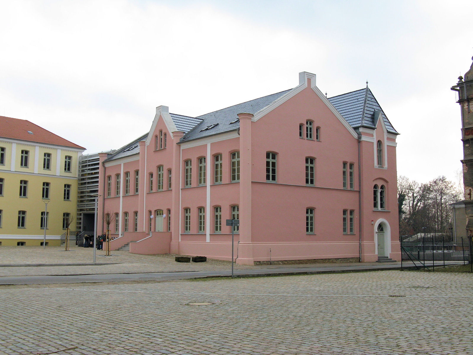 School at square Schlossplatz at Bützow Castle, district Güstrow, Mecklenburg-Vorpommern, Germany